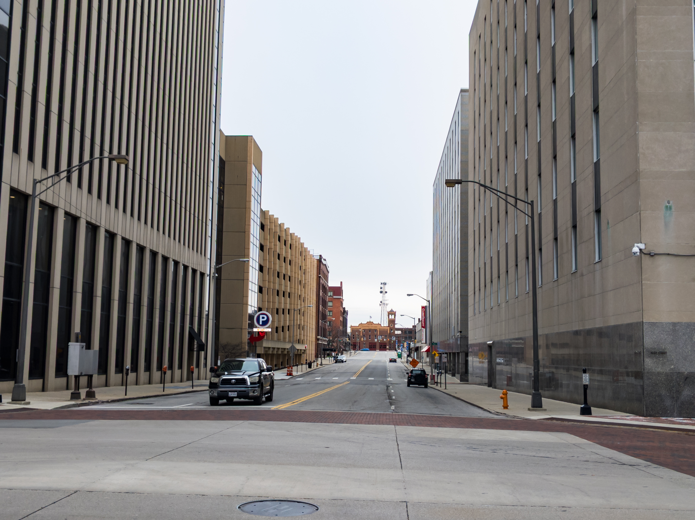 Engine House No. 16, taken in downtown Columbus, Ohio.